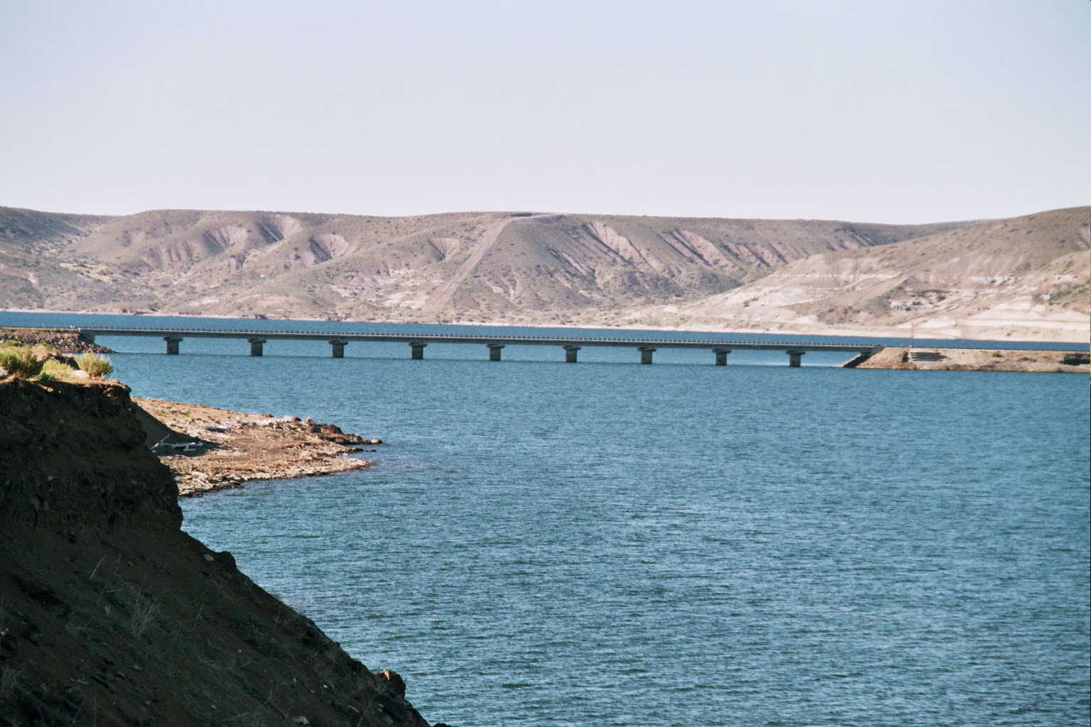 Bridge over Collon Cura River, Neuquen Province, Argentina